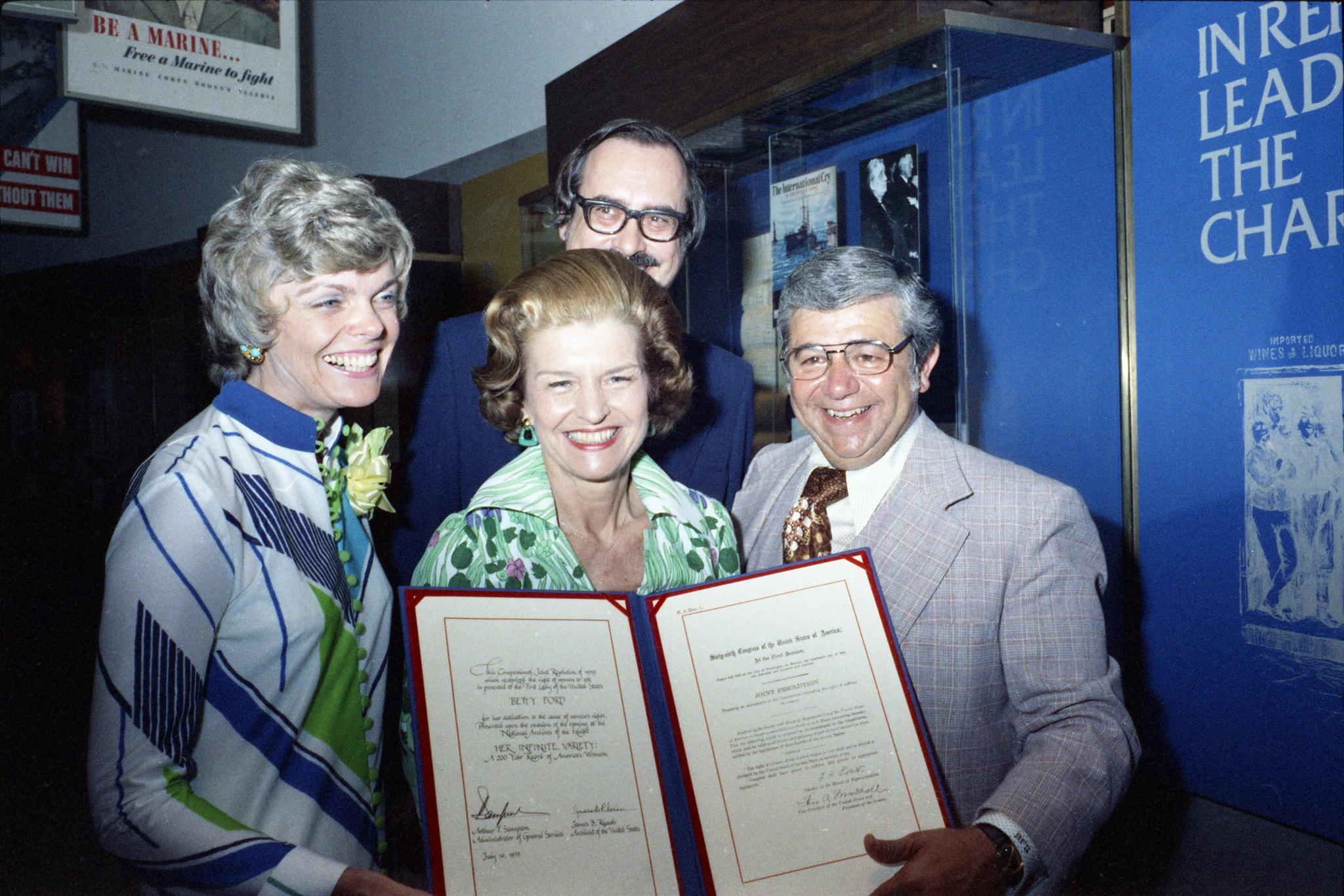 Photograph of First Lady Betty Ford Attending the International Women's Year Reception at the National Archives with Ms. Jill Ruckelshaus, Archivist James B. Rhoads, and General Services Administration Administrator Arthur Sampson